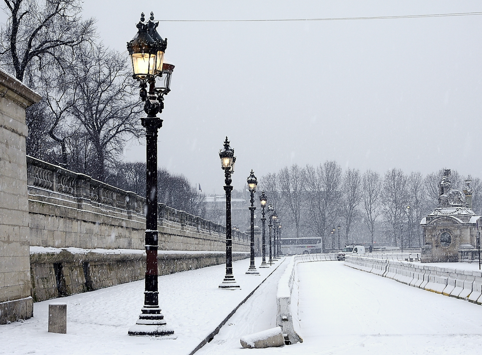 Retaining wall of the Tuileries garden, place de la Concorde, Paris, France.